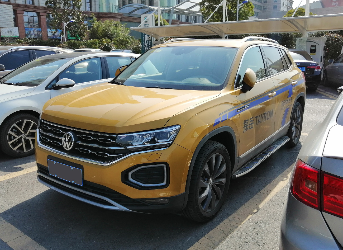 Volkswagen Tayron photographed in Shanghai, China.